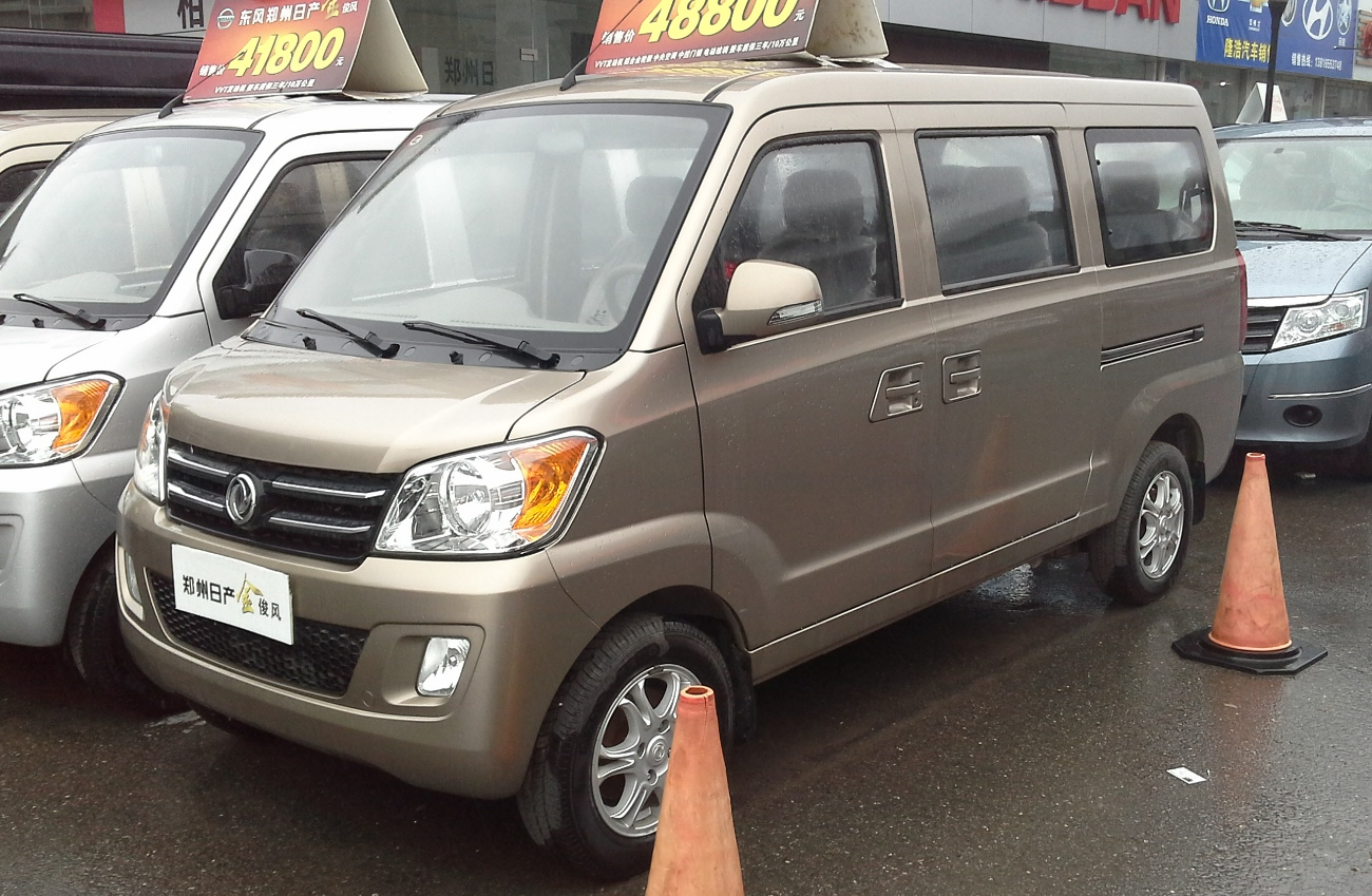 Dongfeng Junfeng photographed in Shanghai, China.